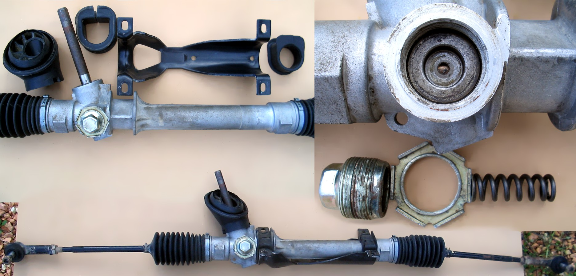 Steering box of a motor vehicle, the traditional (non-assisted), you may notice that the system allows you to adjust the braking and steering systems, you can also see the attachment system to the frame..